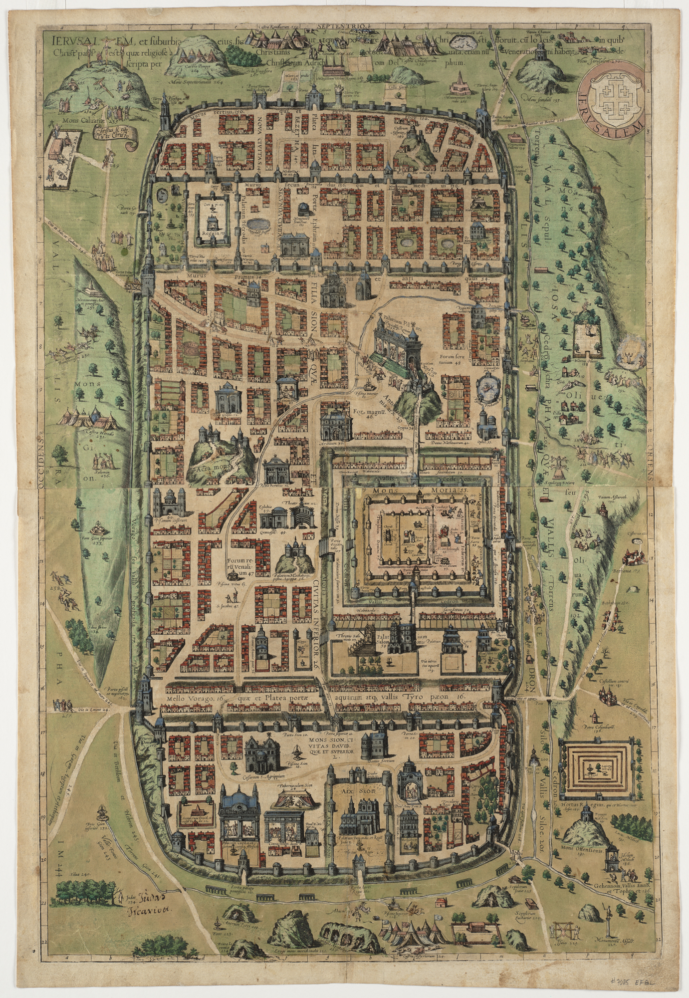 Zoom into this map at . Author: Adrichem, Christiaan van Publisher: G. Braun and F. Hogenberg Date: [1584 or 1588] Location: Jerusalem Scale: Scale not given. Call Number: G7504.J4A5 1584.A37 Map contains sites and scenes of Jerusalem, both within and outside the city, identified by two hundred and seventy captions - each depicting an item mentioned in the Scriptures, and other historical and traditional sources. There is no chronological order to the scenes, as ancient scenes and characters are displayed alongside European buildings and characters of the sixteenth century.